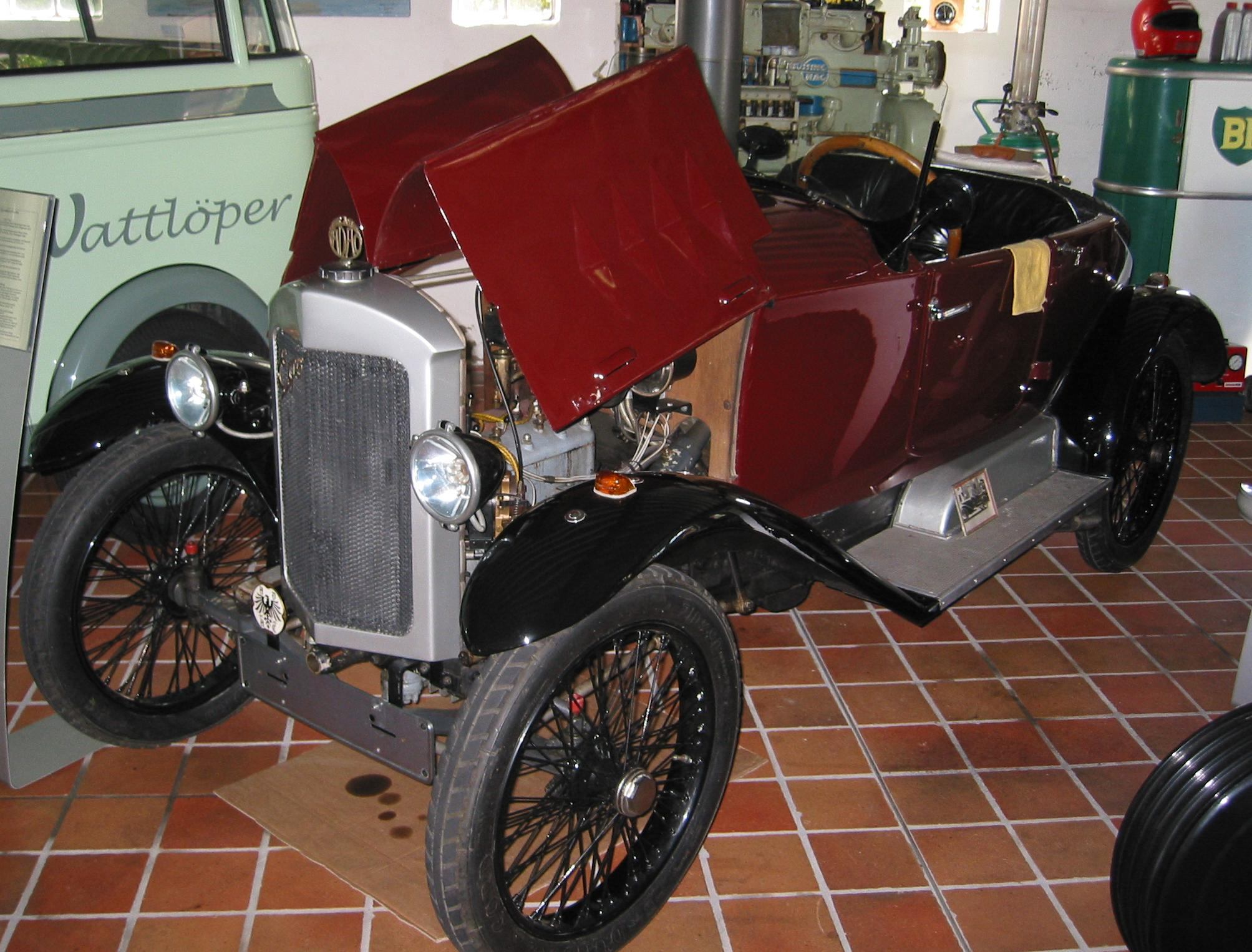 Historic car vehicle built in 1922 by german manufacturer Ego-Werke